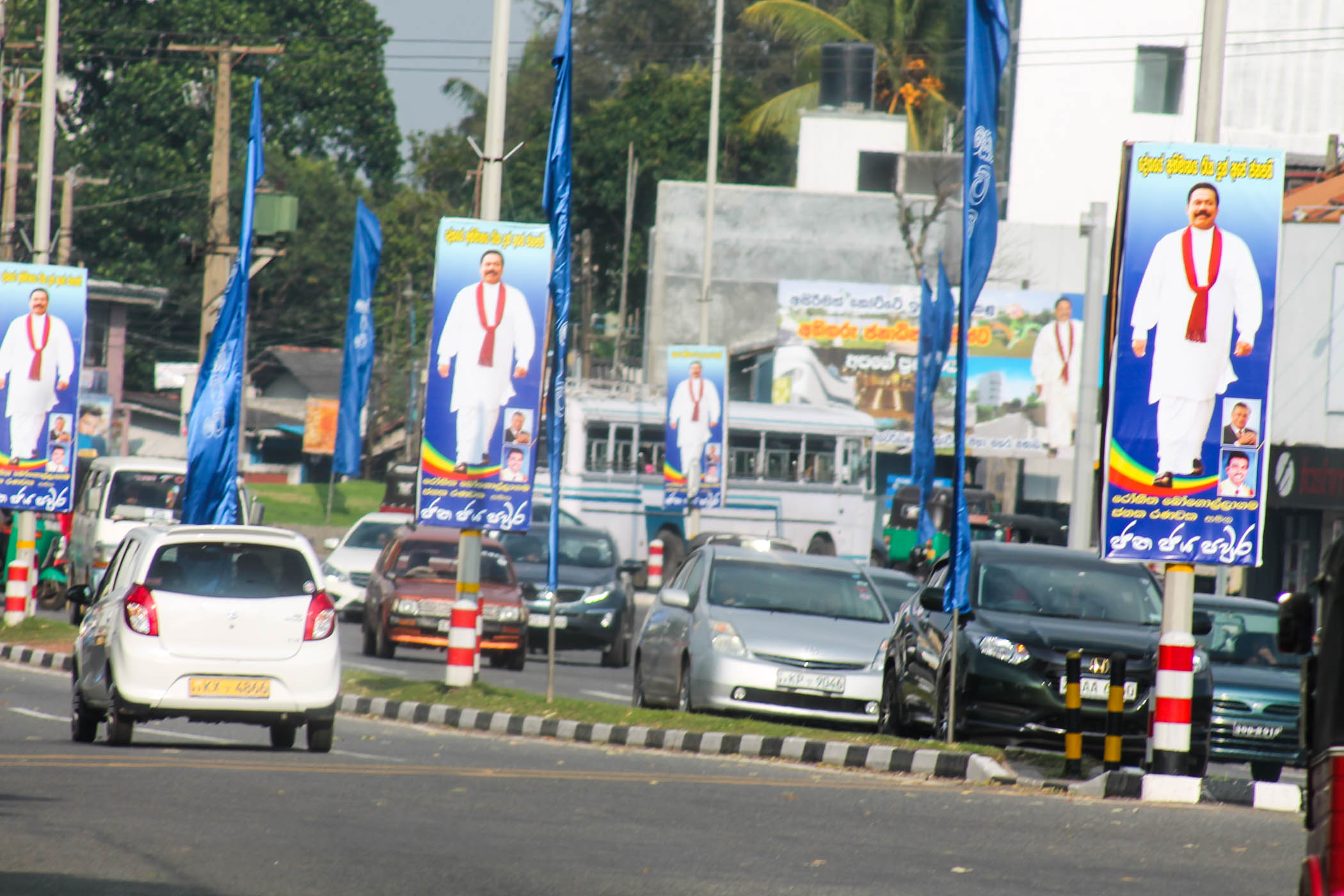 IMG_5649 Posters on presidential election 2015 taken in December 2014